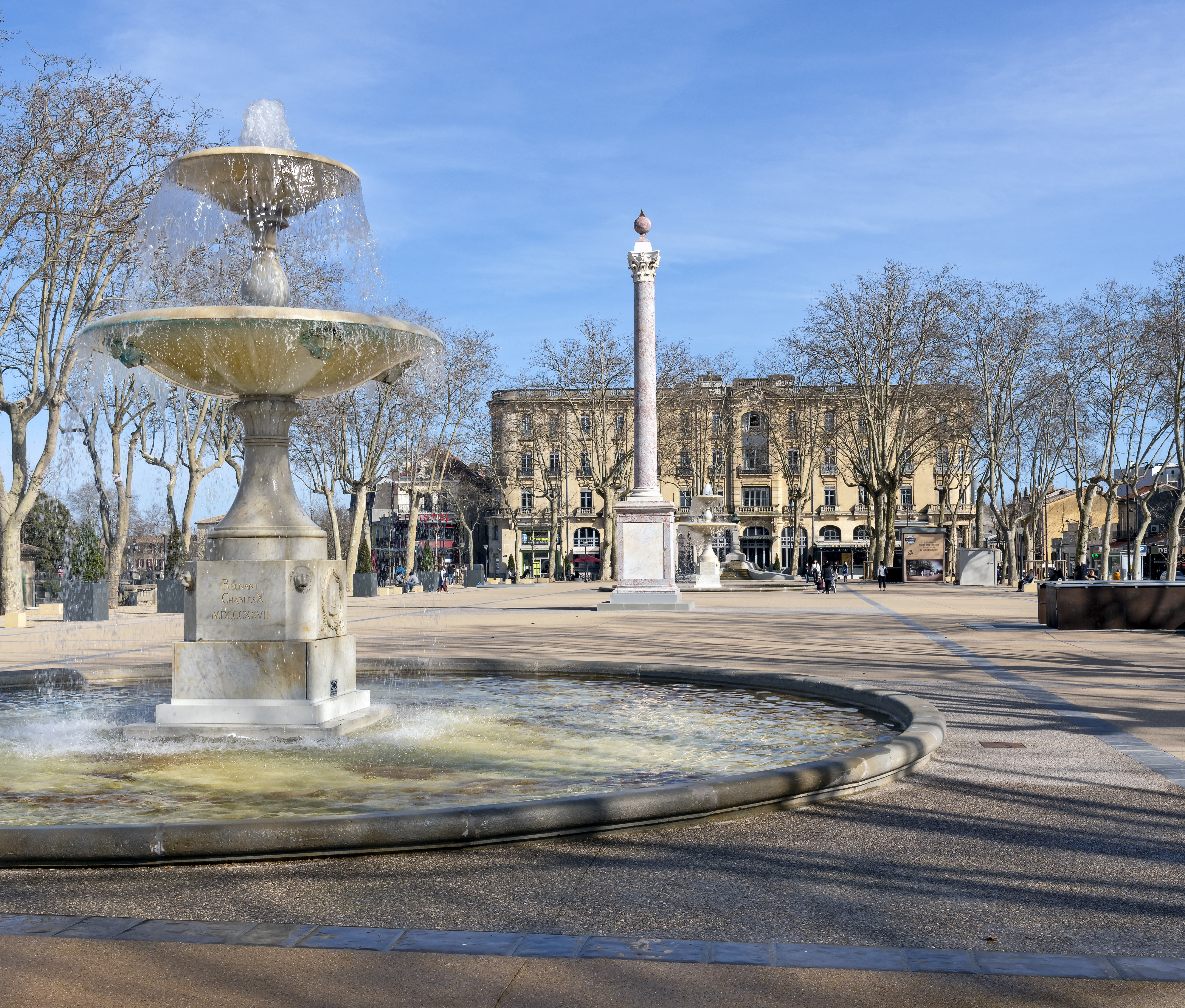 André Chénier Square in Carcassonne. In the center of the square the column of 1821 initially at the Petit Trianon in Versailles